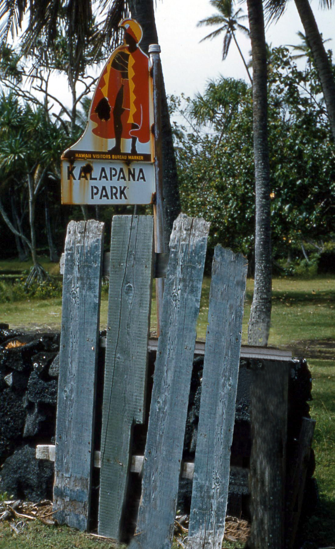 Hawaii Visitors Bureau Marker for Kalapana Park, possibly now destroyed by volcanic eruption